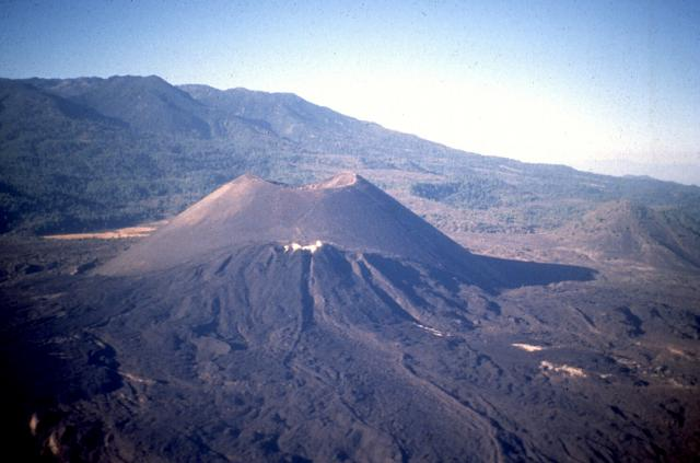 Parícutín — a major cinder cone of the Michoacán-Guanajuato volcanic field, in the Michoacán state section.